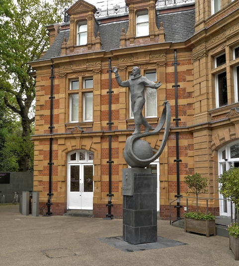 Gagarin Terrace, Royal Observatory, Greenwich The statue to cosmonaut Yuri Alekseyevich Gagarin was unveiled at its permanent location[1] at the Royal Observatory in Greenwich on 7 March 2013. The statue shows Gagarin in his spacesuit standing on the globe and is a gift from the Russian federal space agency, Roscosmos, to the British People. The statue is near the Observatory’s 19th century Astronomy Centre; the area in which the statue stands has been named Yuri Gagarin Terrace in honour of the cosmonaut. Yuri Gagarin was the first human to journey into outer space, when his Vostok spacecraft completed an orbit of the Earth on 12 April 1961. He was killed in 1968 when the MiG-15 training jet he was piloting crashed.